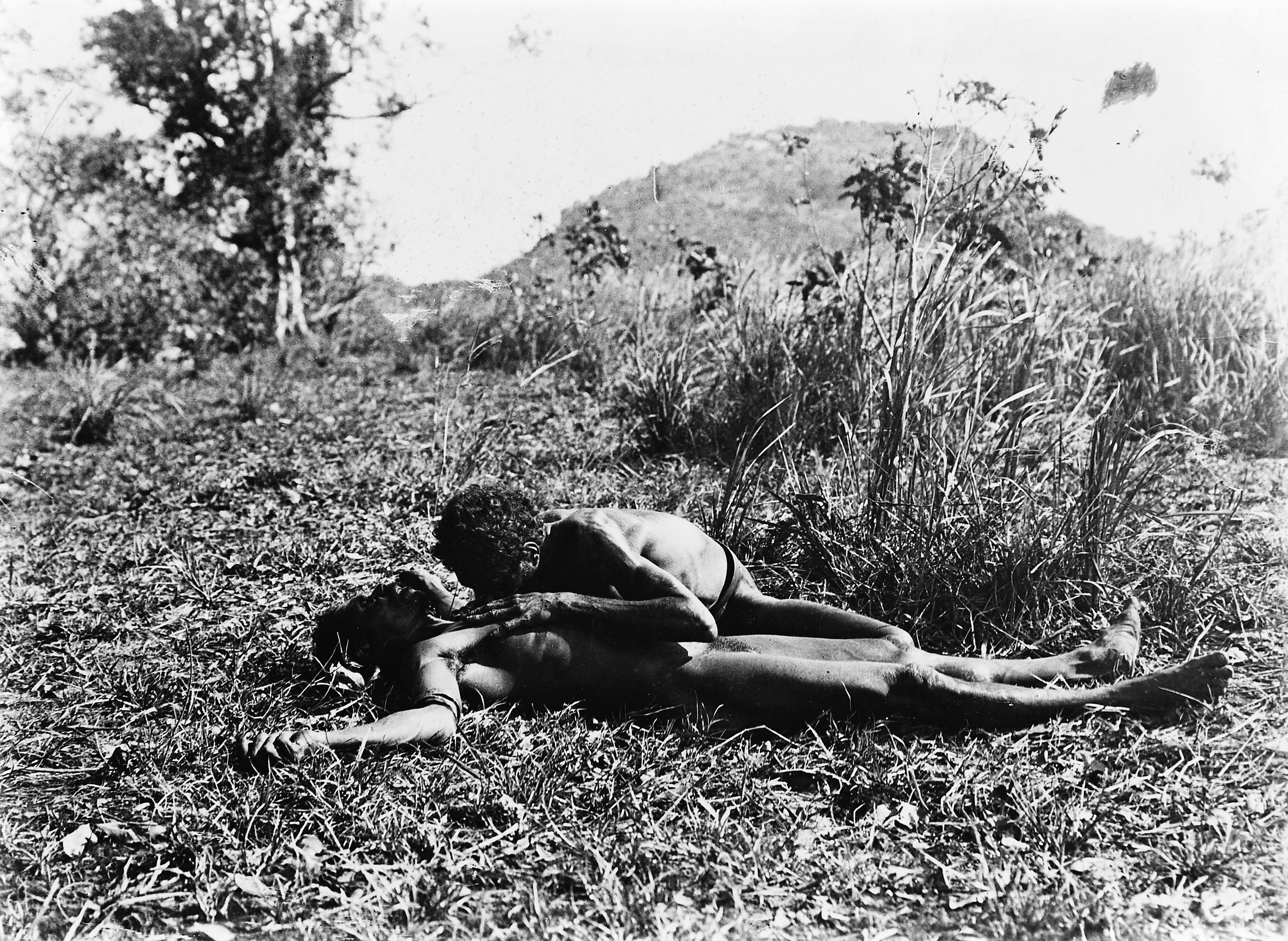 Lamina I Medico chupador de una de las tribus Australiana, comparese con el de la lamina siguiente. (Doctor from one of the Australian tribes who 'sucks', to compare with the Chaco Argentinian doctor) Wellcome Images Keywords: indigenous : culture; non-european; Ethnography; religion: magic